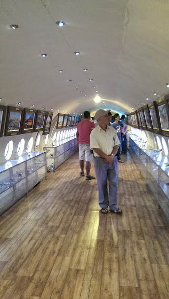 एअरक्राफ्ट म्युजियम एक दृष्य